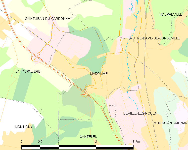 Map of French municipality Maromme